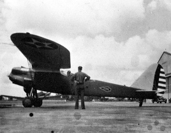 Douglas XO-31 under evaluation at Wright Field.